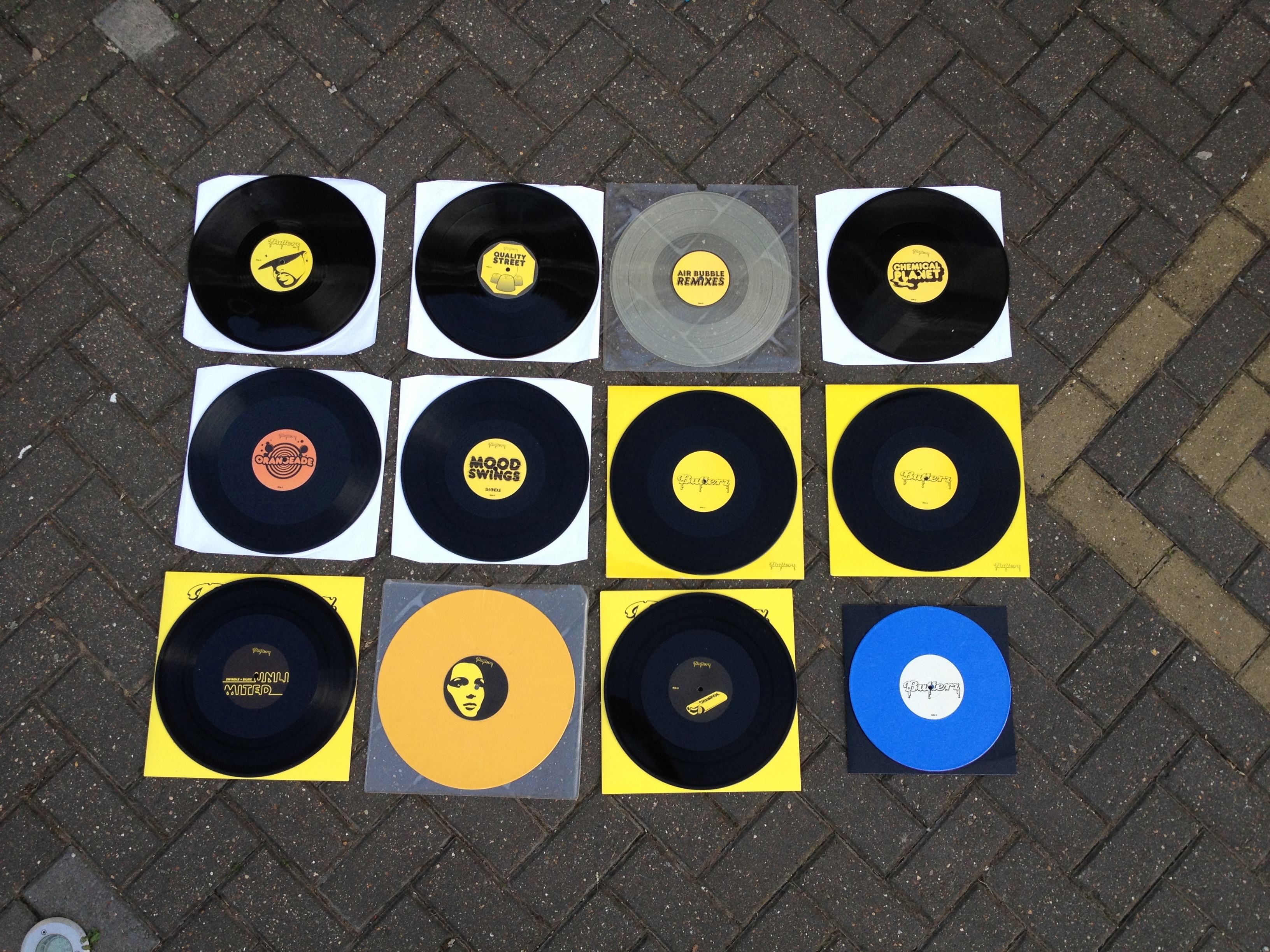 BR001-BR011 Partial catalog of Butterz, a UK grime music record label.